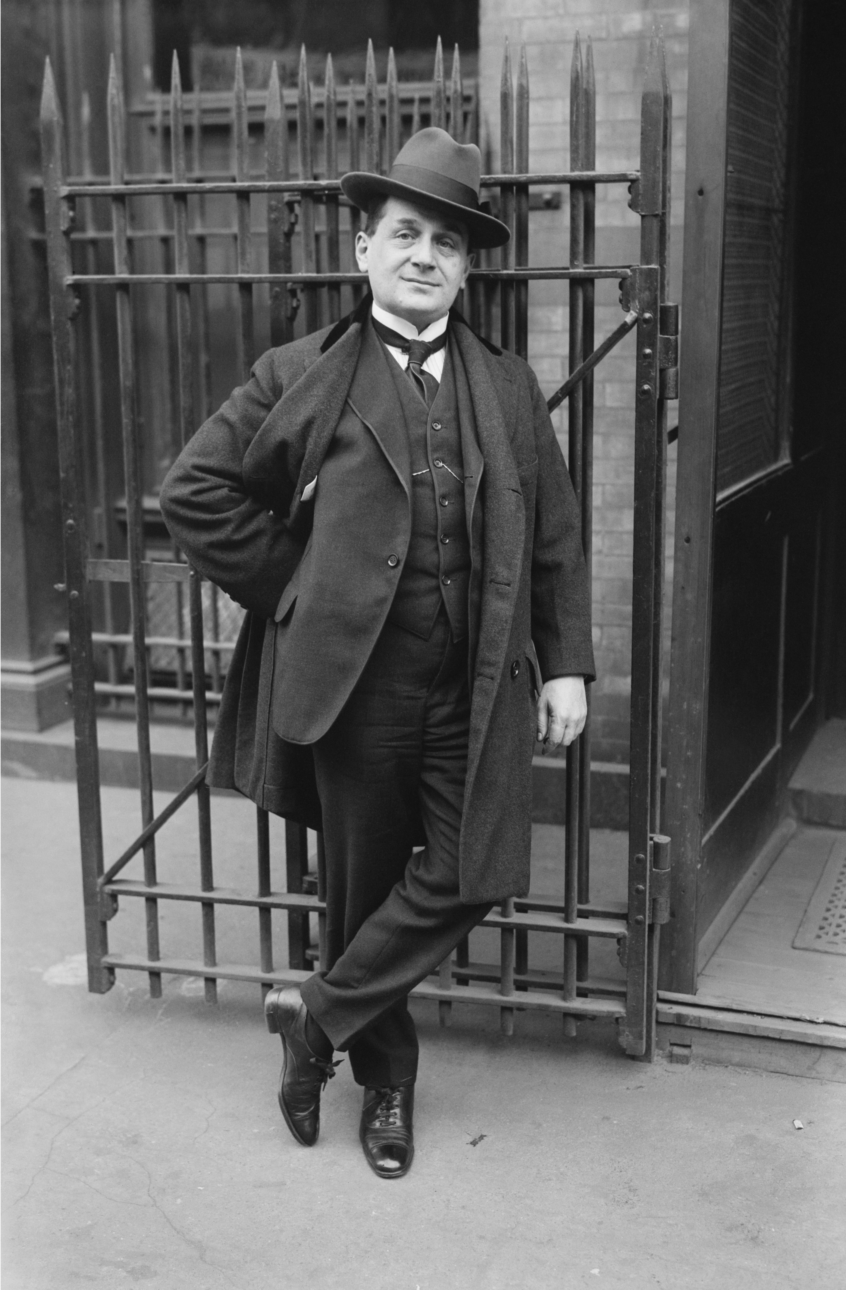 Albert Reiss in front of the Metropolitan Opera House stage entrance, in New York.